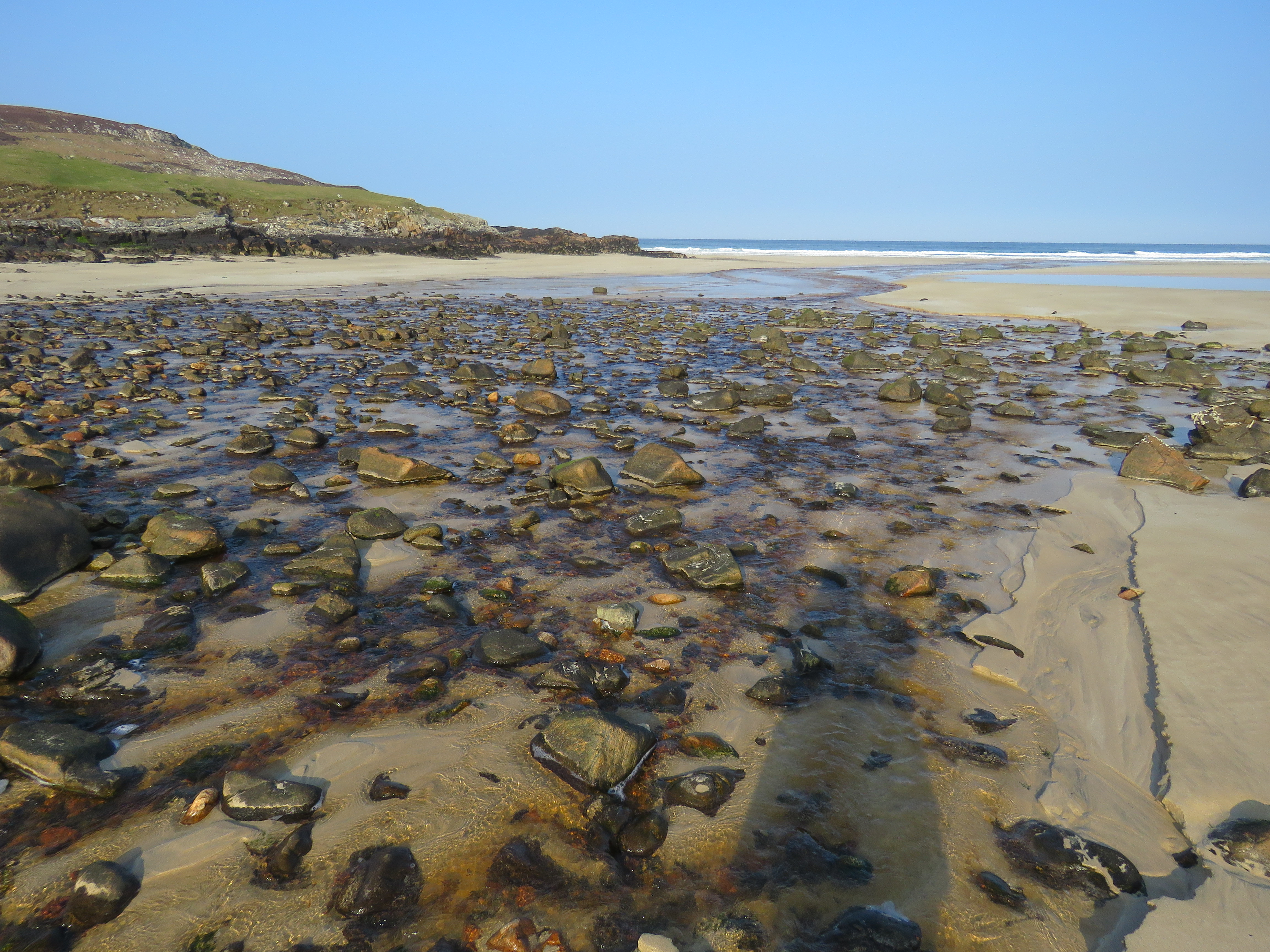 stream on Tolsta beach, Lewis, Outer Hebrides